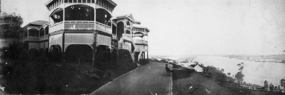 Cremorne residence on Hamilton Hill, Brisbane, ca. 1906 Cremorne is a large, single-storeyed timber residence, situated halfway up the steep slope of Eldernell/Hamilton Hill, with expansive views of the Brisbane River and the southeastern suburbs. The home was erected 1905-6 for Brisbane publican, James Denis O'Connor and was designed by one of the most fashionable architectural firms of the day, Messrs Eaton & Bates. Three generations of the O'Connor family resided on the property for nearly 90 years and retained ownership until the late 1990s. 34 Mullens St Hamilton QLD 4007